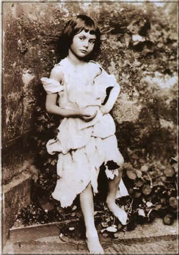 "Alice Pleasance Liddell as a beggar girl." This was first published in Carroll's biography by his nephew: Collingwood, Stuart Dodgson (1898) The Life and Letters of Lewis Carroll, London: T. Fisher Unwin, pp. p. 80 Retrieved on 22 December 2010.